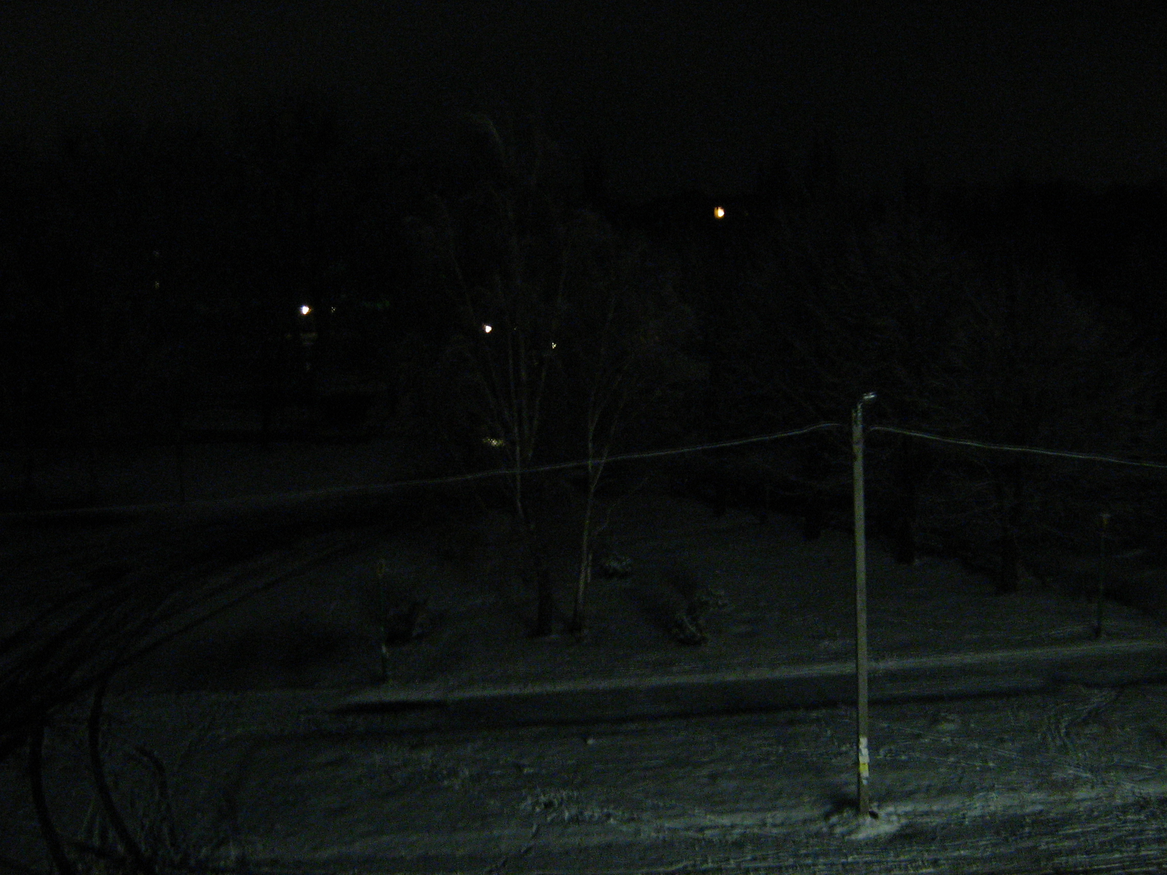 In almost complete darkness, lit only a few lamps and snow lies. Hour night.